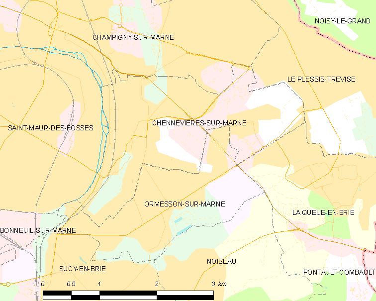 Map of French municipality Chennevières-sur-Marne